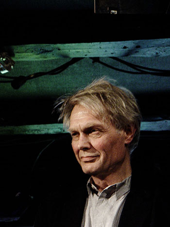 Peter Laugesen, jazz and poetry